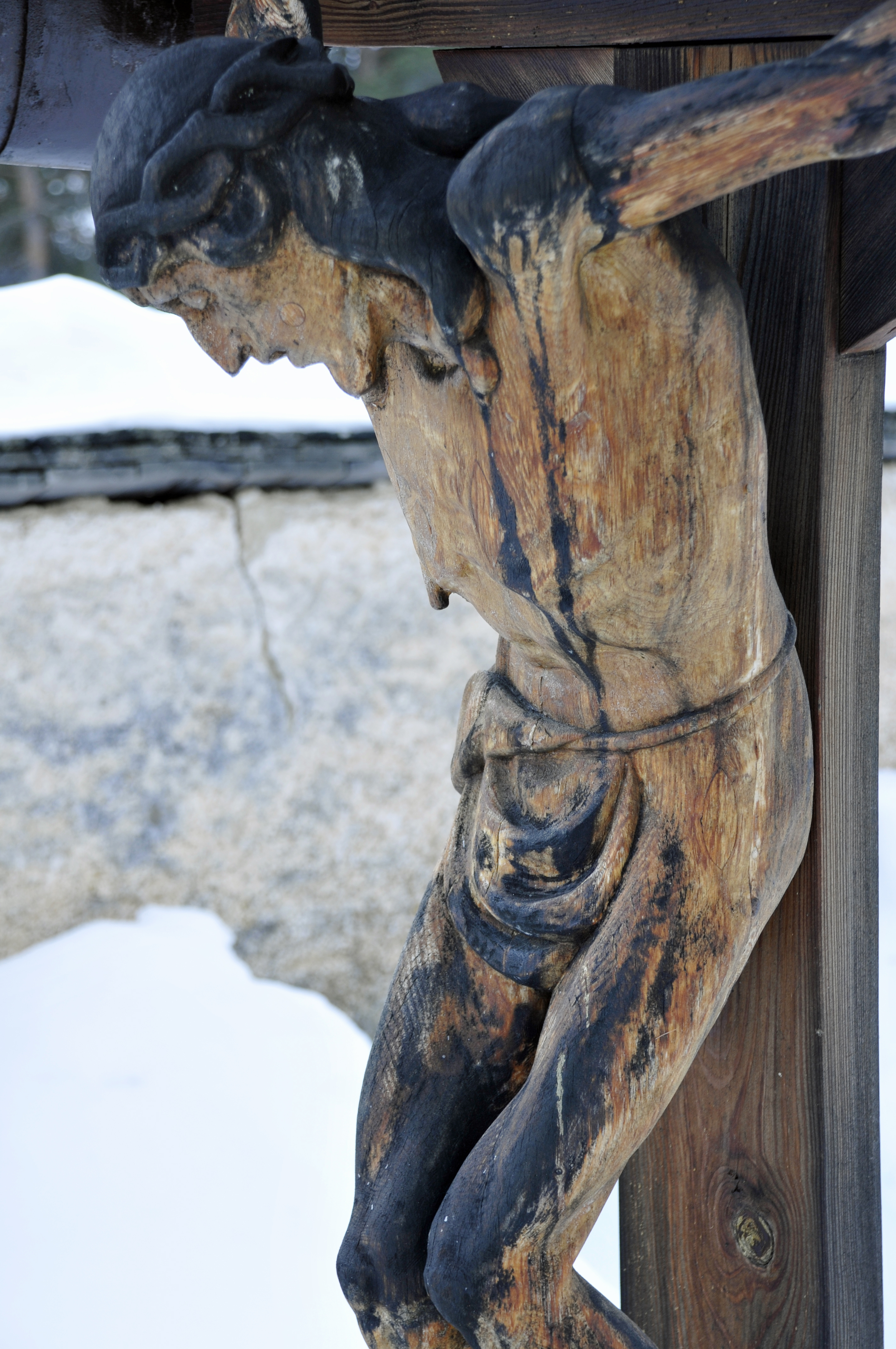 Crucifix by Vinzenz Peristi, sculptor in Val Gardena.